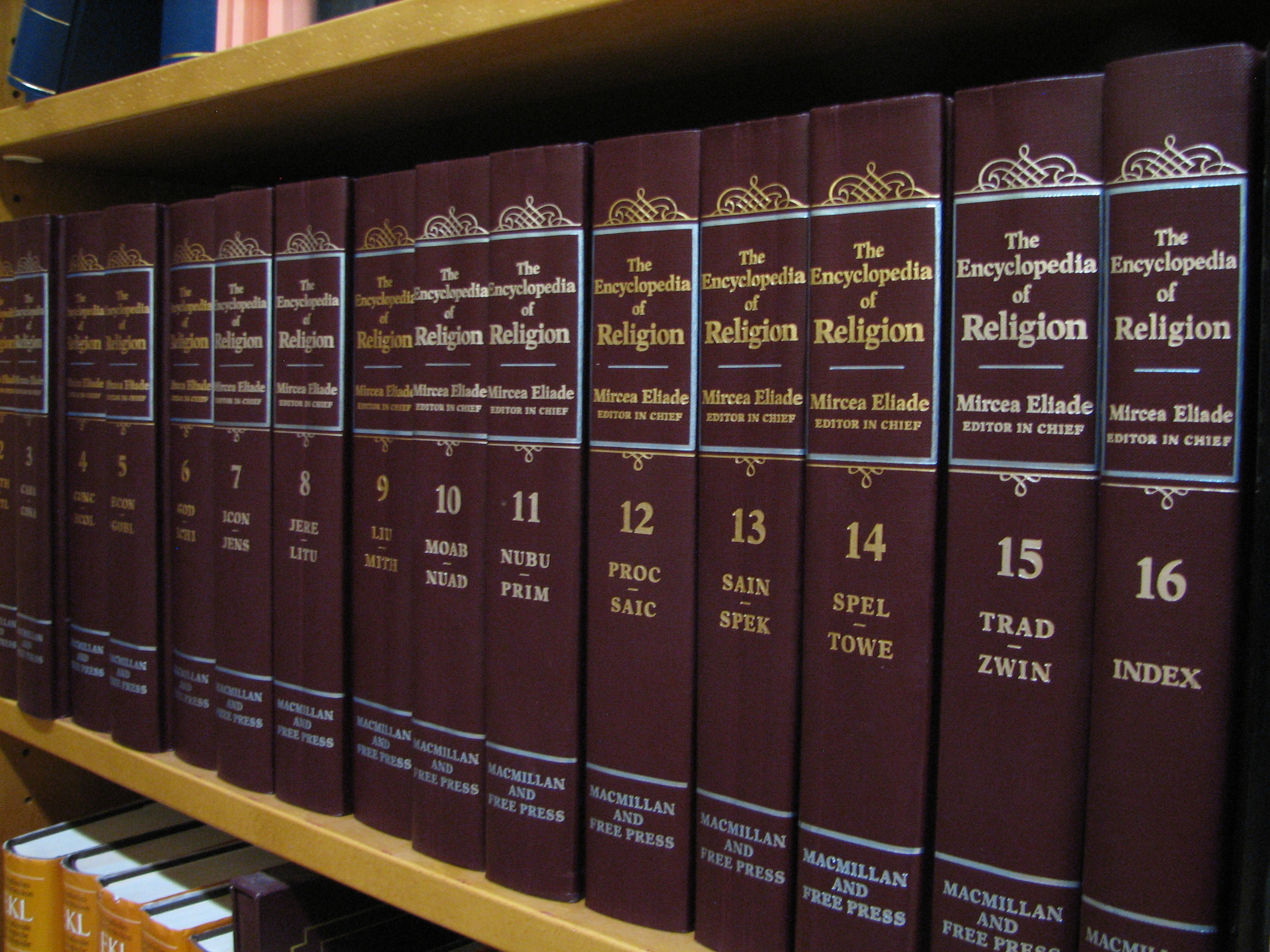 Mircea Eliade (ed.): Encyclopedia of Religion. Macmillan Library Reference 1986.